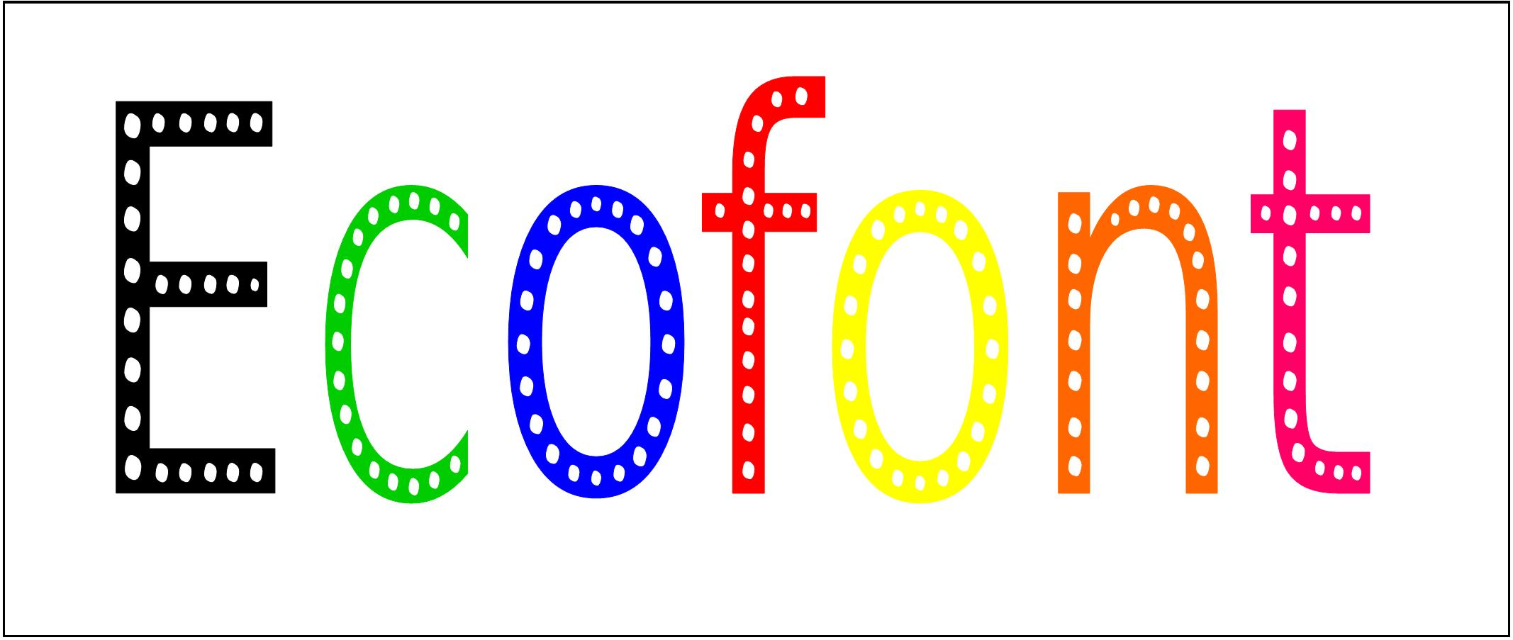 Ecofont